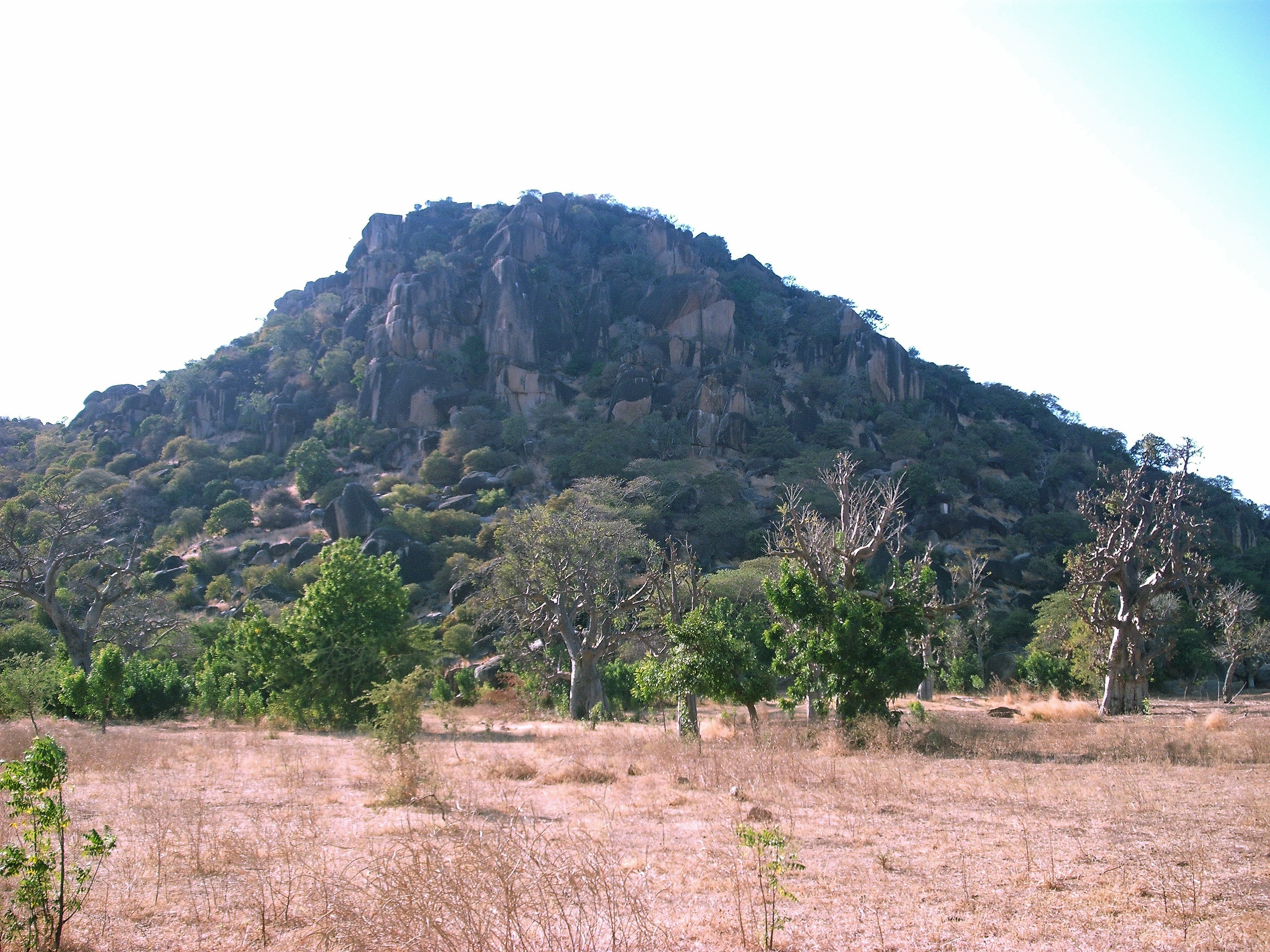 I picture of Wamdeo Mountain